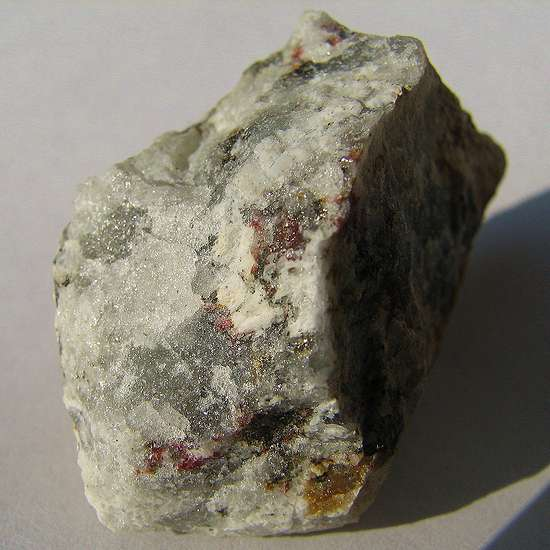 Mineral: celsian feldspar Locality: Incline (Mariposa County), California Size: 5 x 4 x 3 cm Celsian, a rare barium feldspar. The celsian crystals in this sample are transparent and appear gray in the photo. The surrounding matrix is composed of sanbornite and quartz.